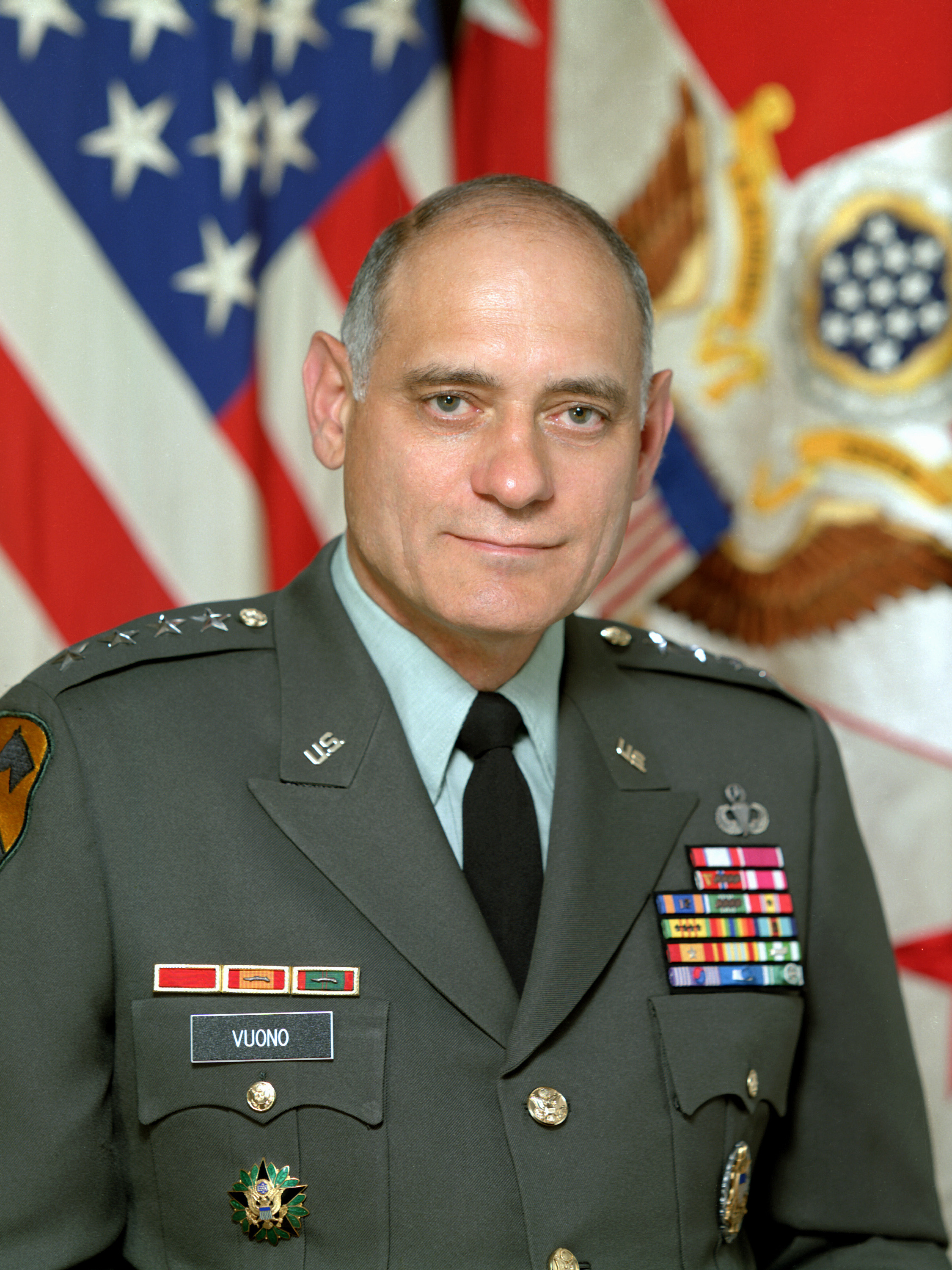 Carl Vuono, former Chief of Staff of the U.S. Army.